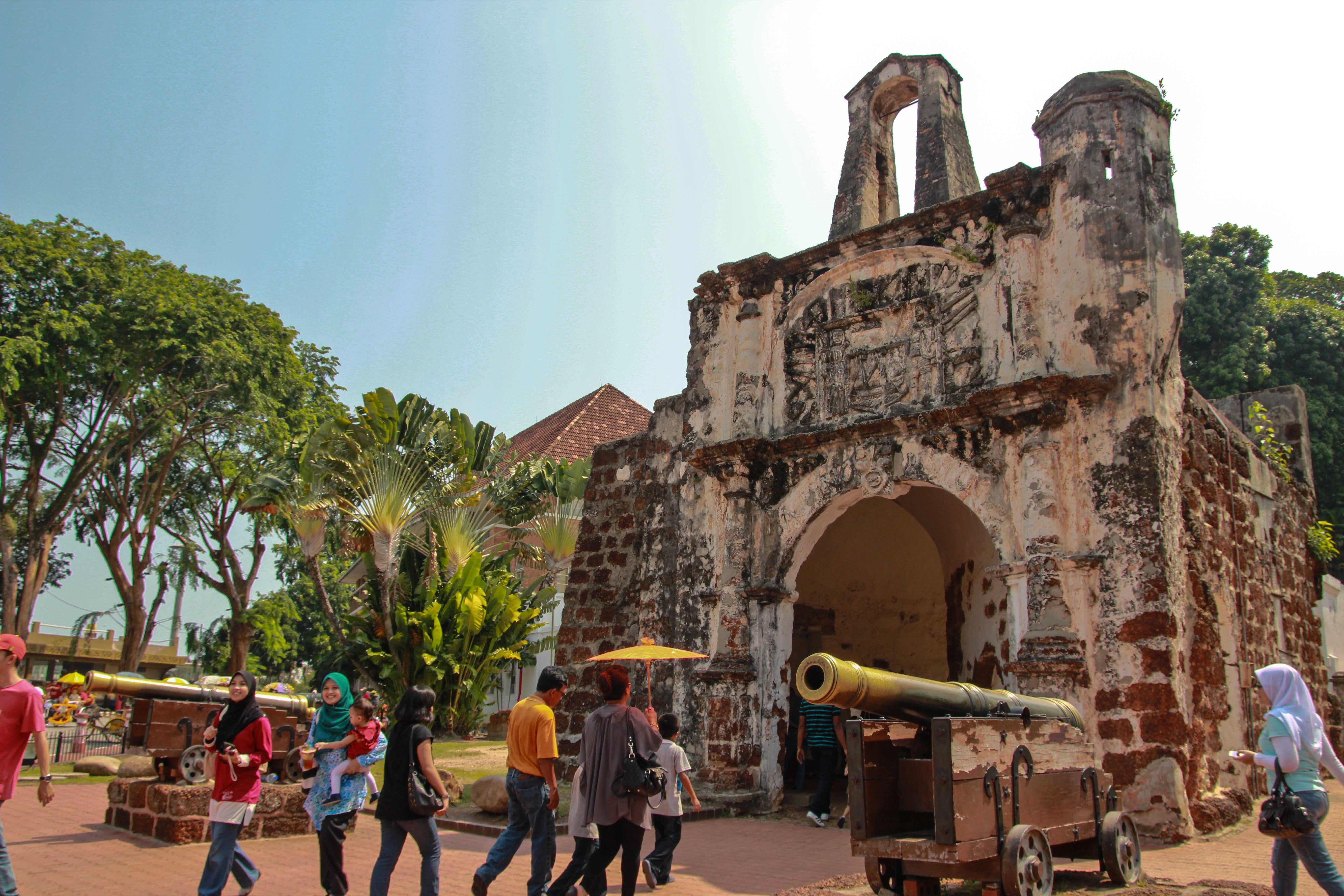 Melakka